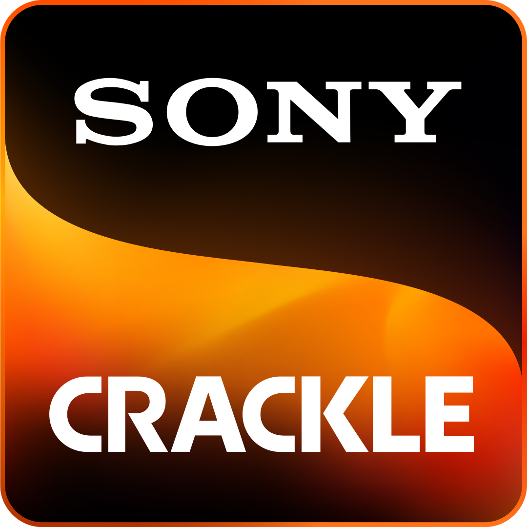 Sony Crackle logo revealed in January 2018